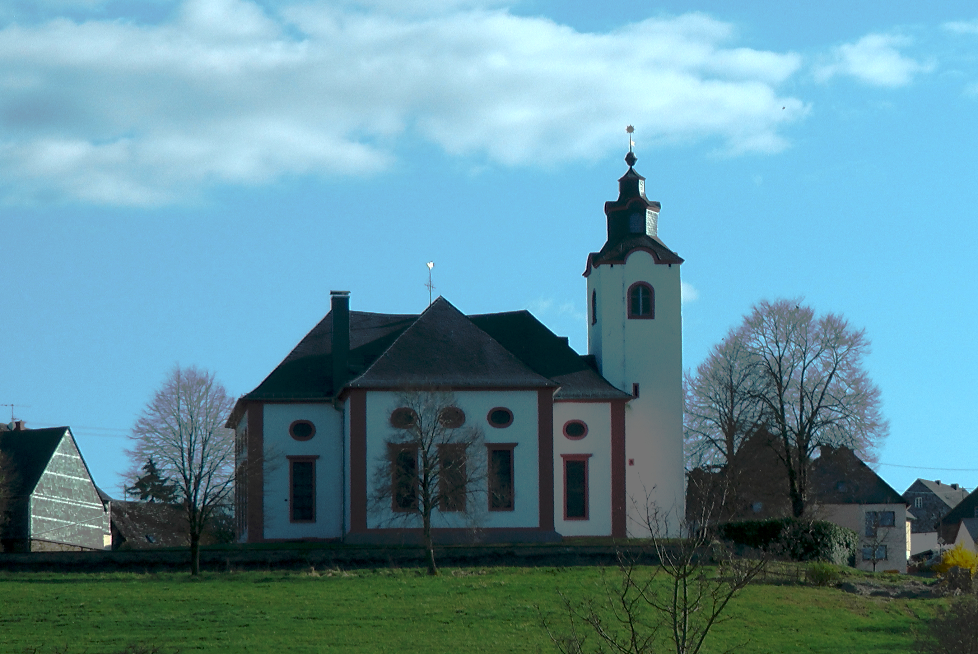 Protestant church Kleinich (Gernamy, Rhineland-Palatinate, Hunsrück) from the north.